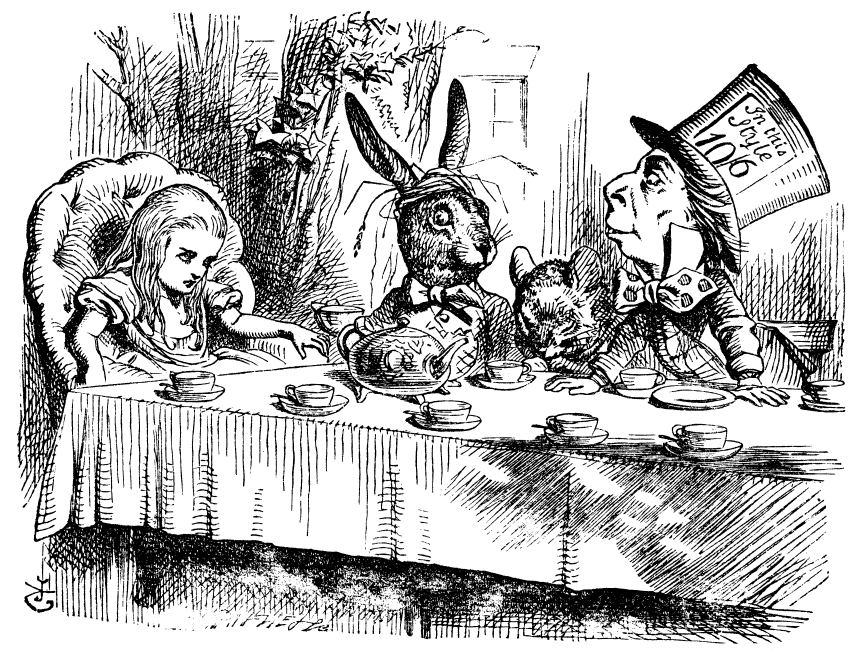 "Alice in Wonderland" illustration №25 by Tenniell